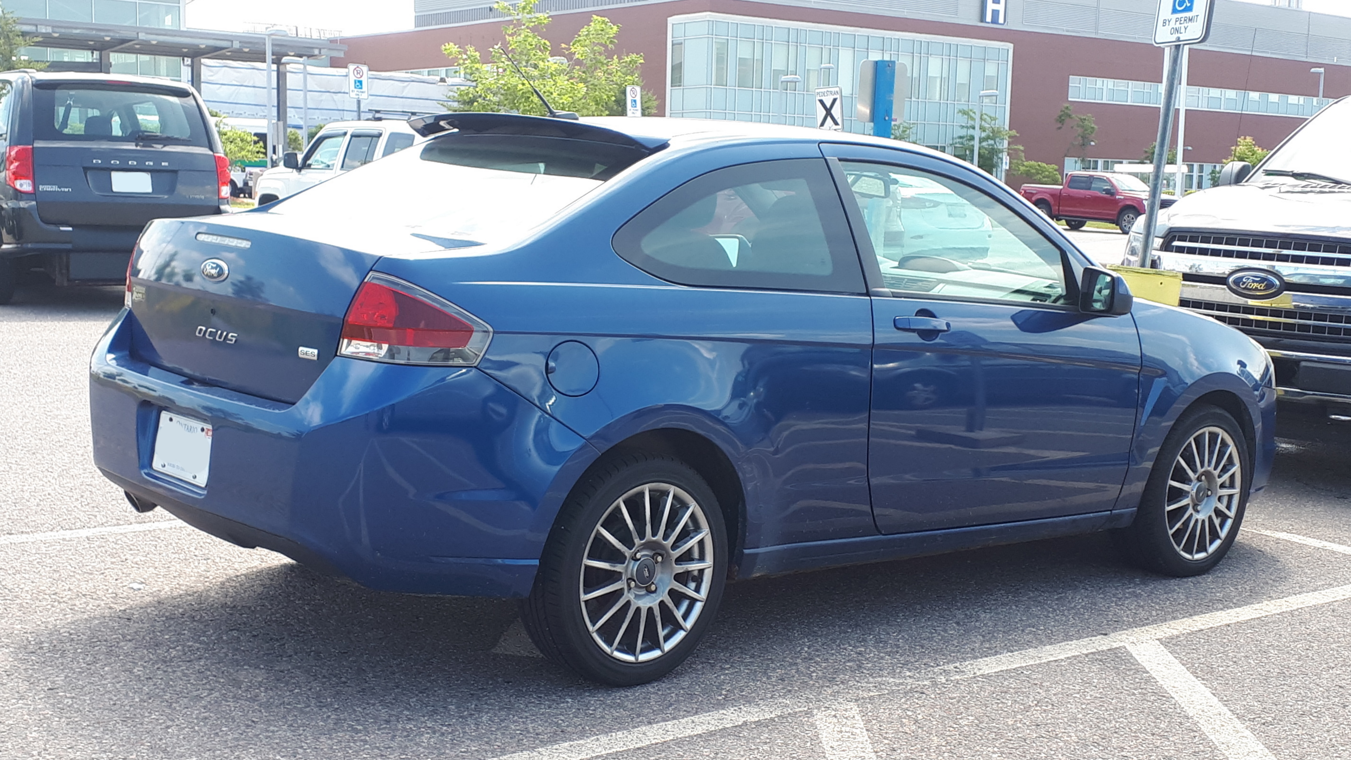 2008-2010 Ford Focus SES Coupe photographed in Sault Ste. Marie, Ontario, Canada